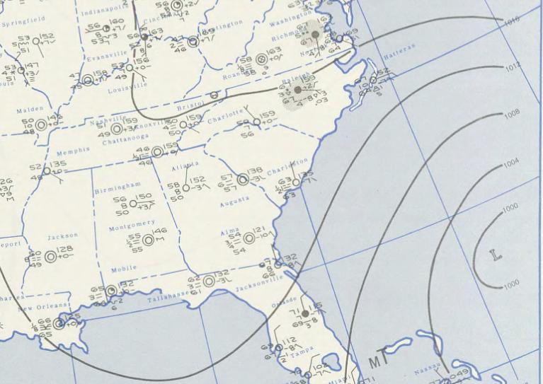 Surface weather analysis of Hurricane Greta on 2 November 1956.